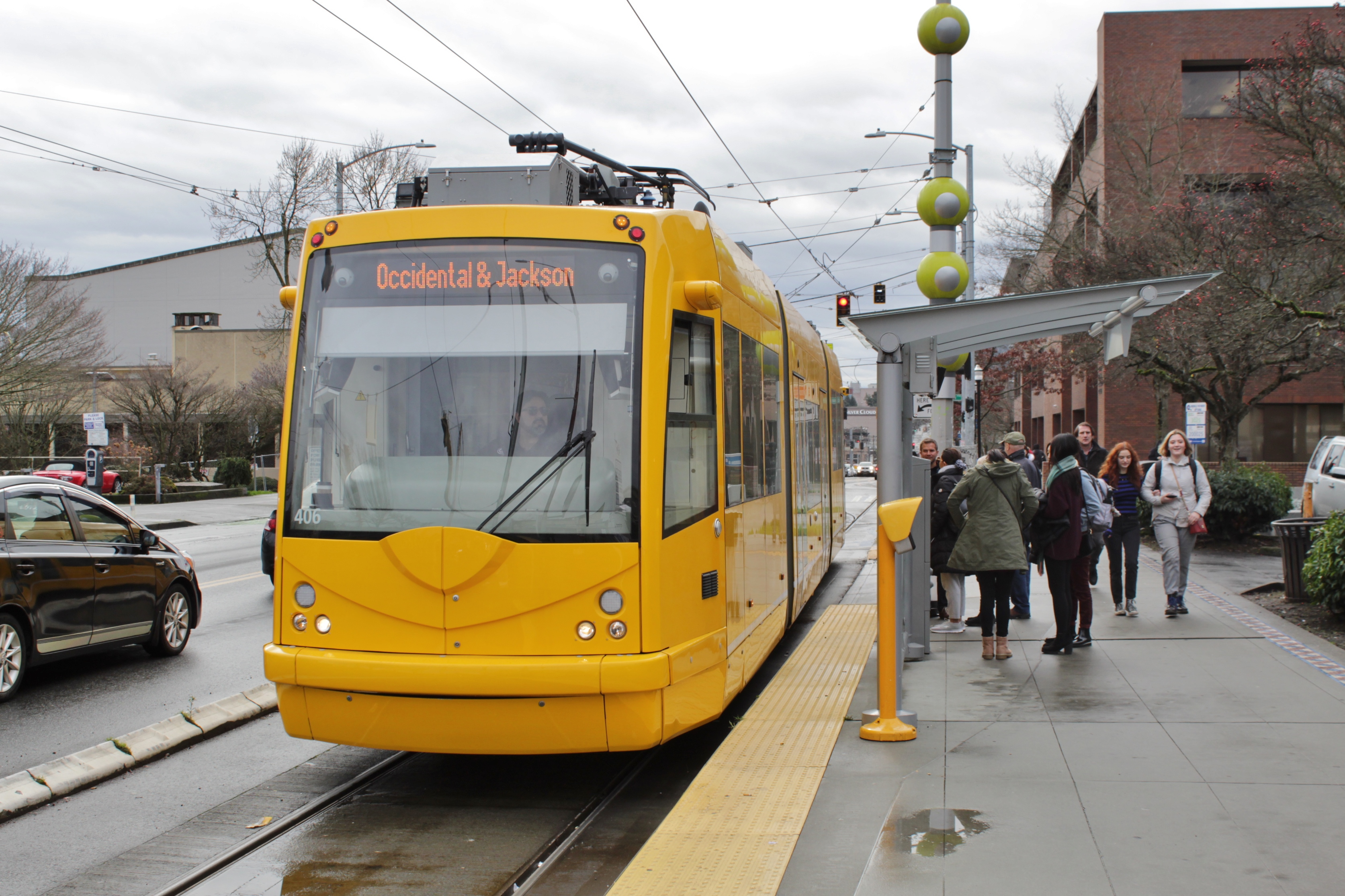 An Inekon 121 Trio streetcar on the Broadway section of the First Hill Streetcar in Seattle, Washington, US, seen at the northern terminus (Capitol Hill station).